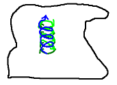 Development of mesocyclone - part 3